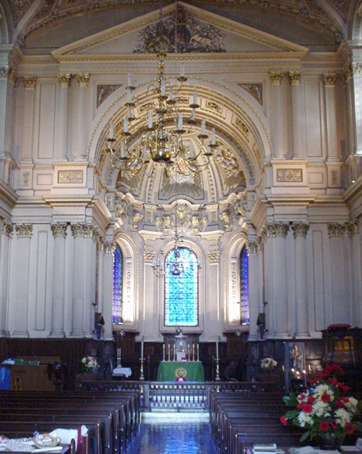 Photo taken by lonpicman